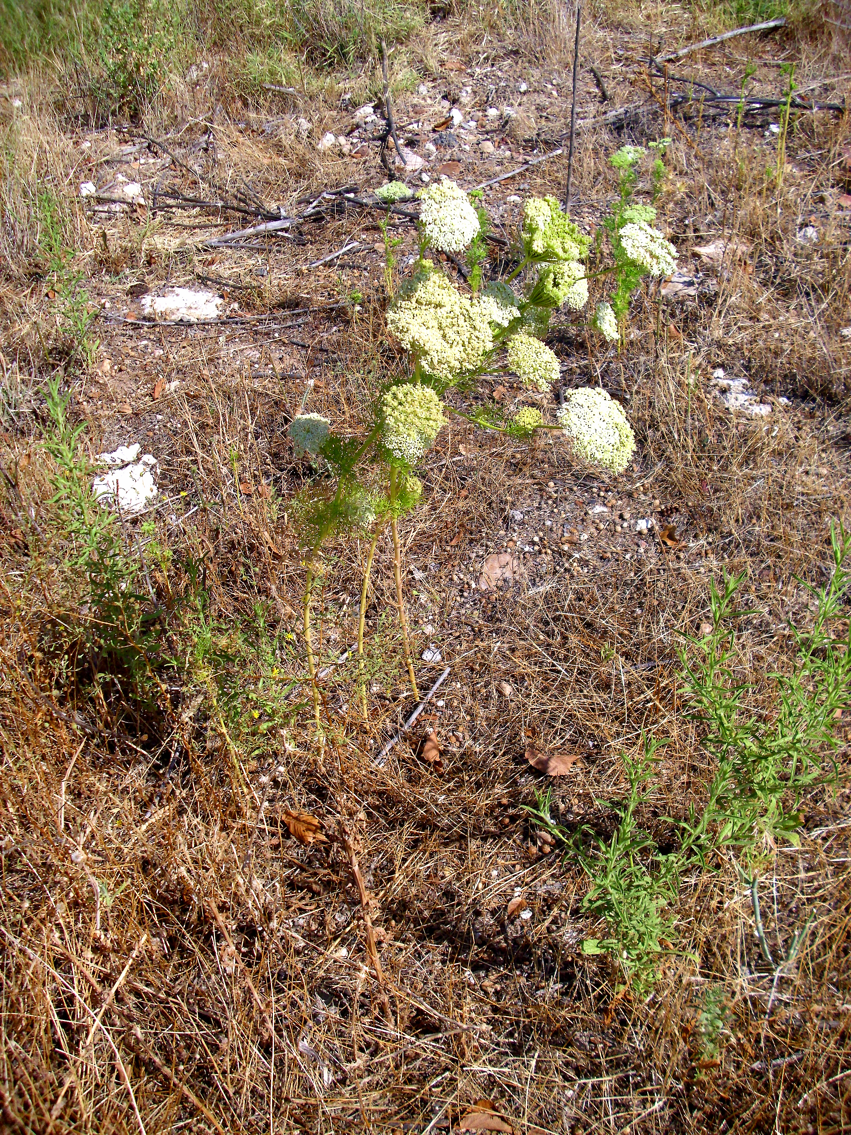 Ammi visnaga habitat, Laguna de Caracuel, Spain